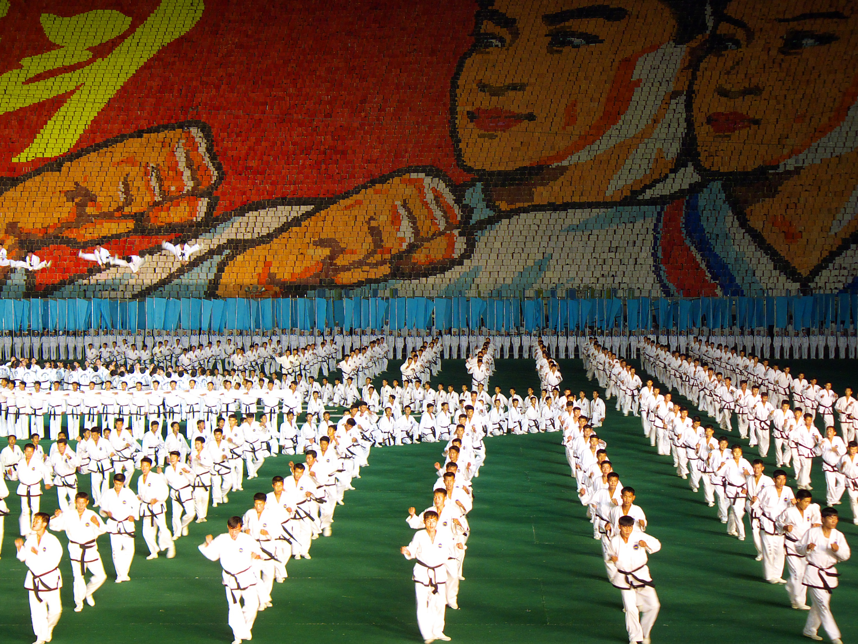 The Arirang Mass Games, held in the Rungnado May Day stadium (incidentally the largest in the world by seating capacity), retells the history of the country, well, their version of it at least. The performance is famed for huge mosaics created by thousands of school children and complex mass gymnastics and dance routines.